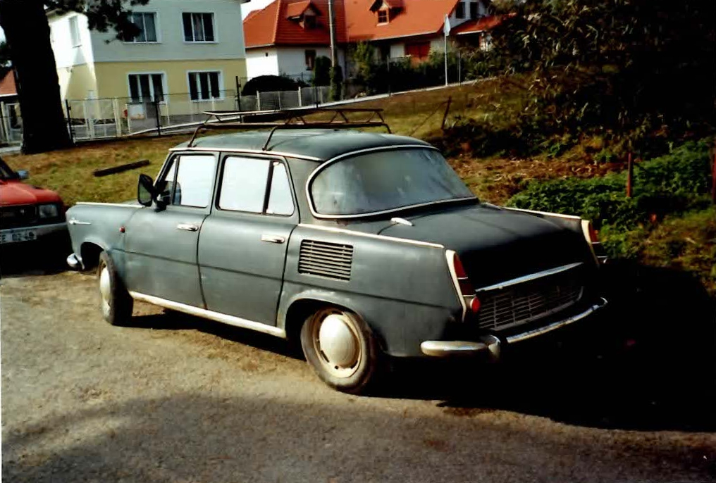 Škoda 1000MB, CZ 2004, near of Prague, sometimes seen in daily routine